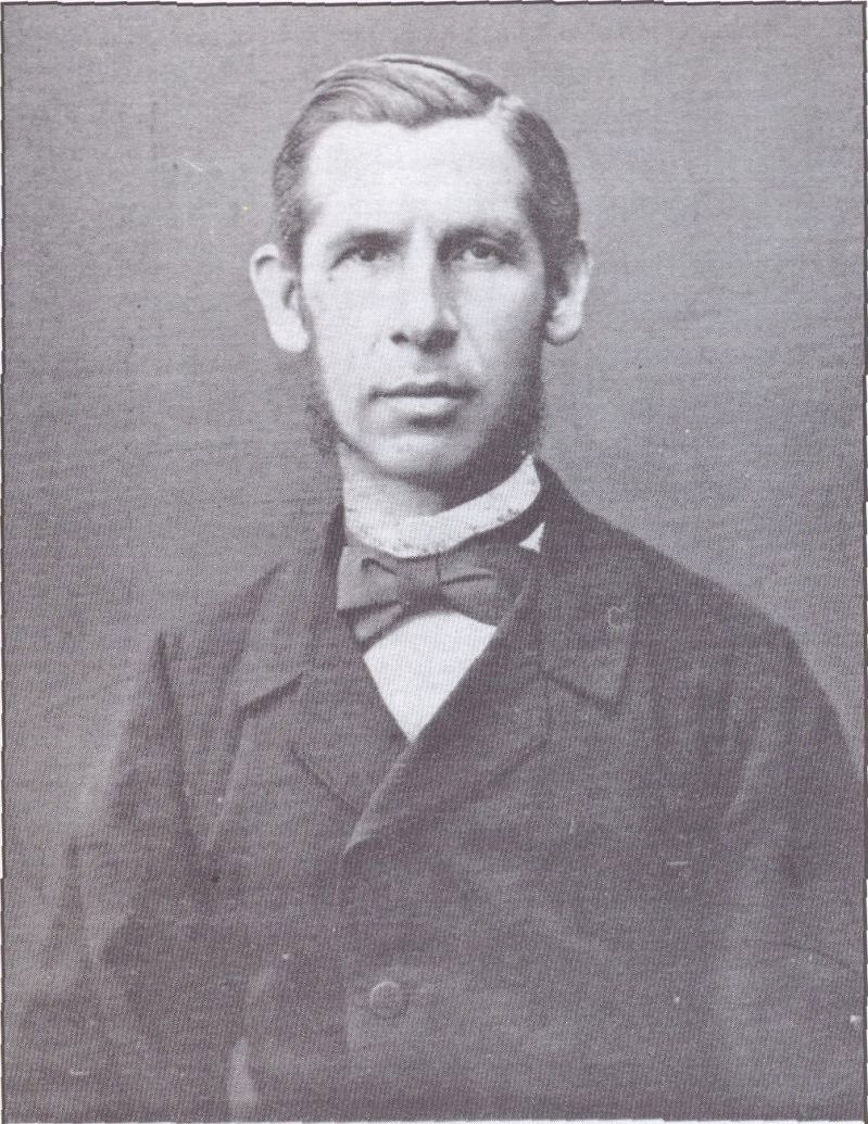 Karel Eduard z Lány (1838-1903), Czech theologian, 1st superintendent of czech Lutheran Congregations in Bohemia